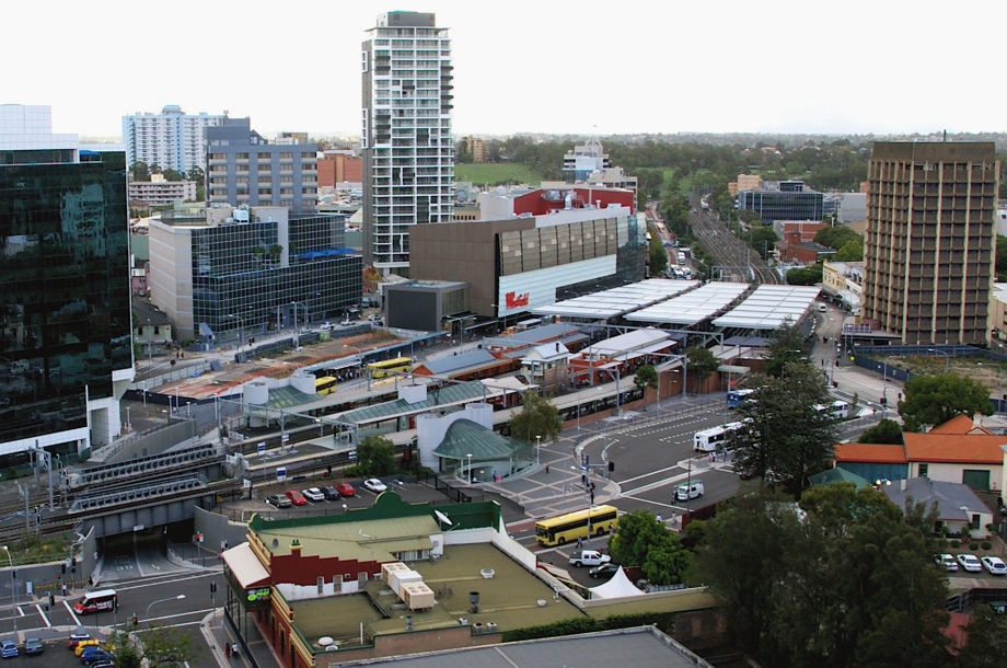 Aerial view of the Parramatta Transport Interchange in 2007.